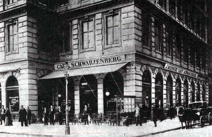 Café Schwarzenberg in Viennas 1 district, Corner Schwarzenbergstraße / Ring, before 1900